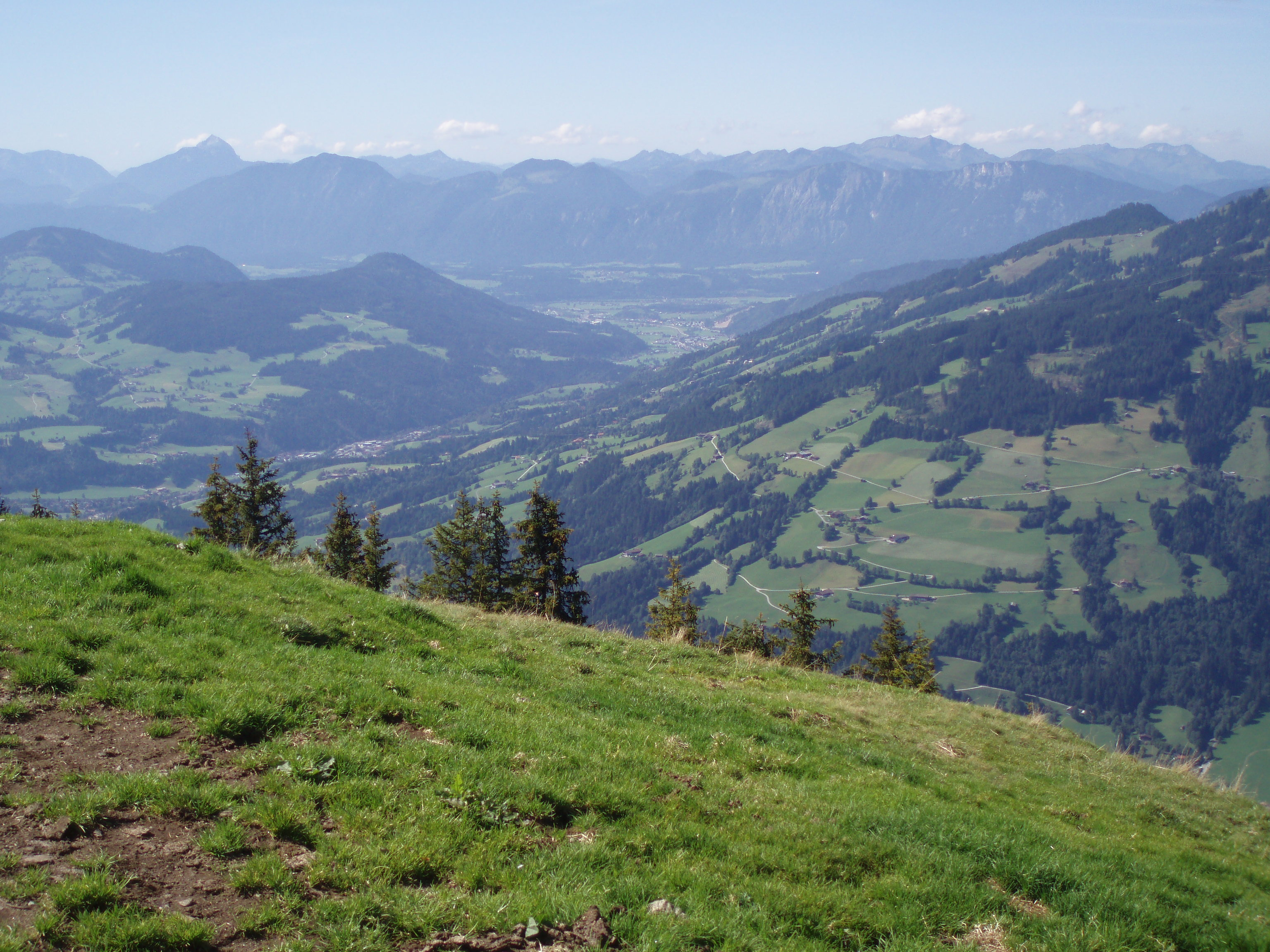 The Brixental valley in Tyrol, Austria